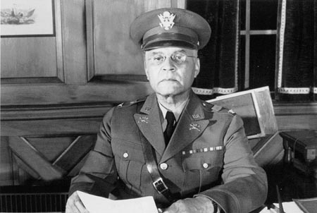 Official US Army DA Form 201 Photograph of BG Benjamin Oliver Davis, Sr.